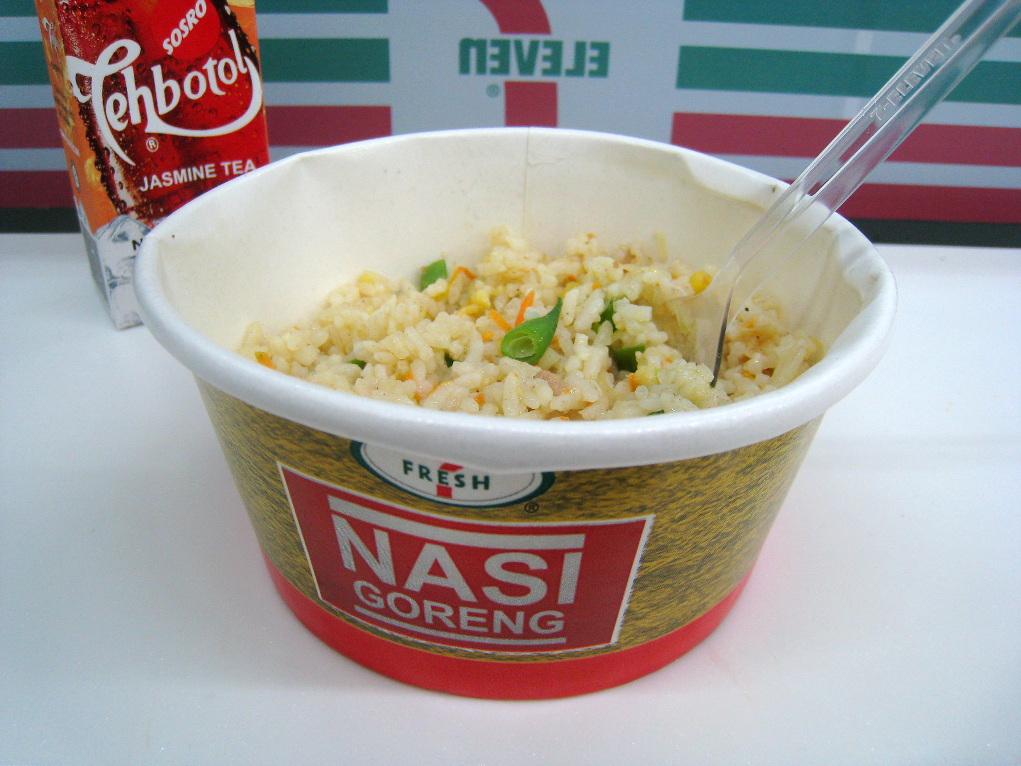 7-Eleven microwaved Nasi Goreng with Teh Botol served in 7-Eleven convenience store in Jakarta, Indonesia.